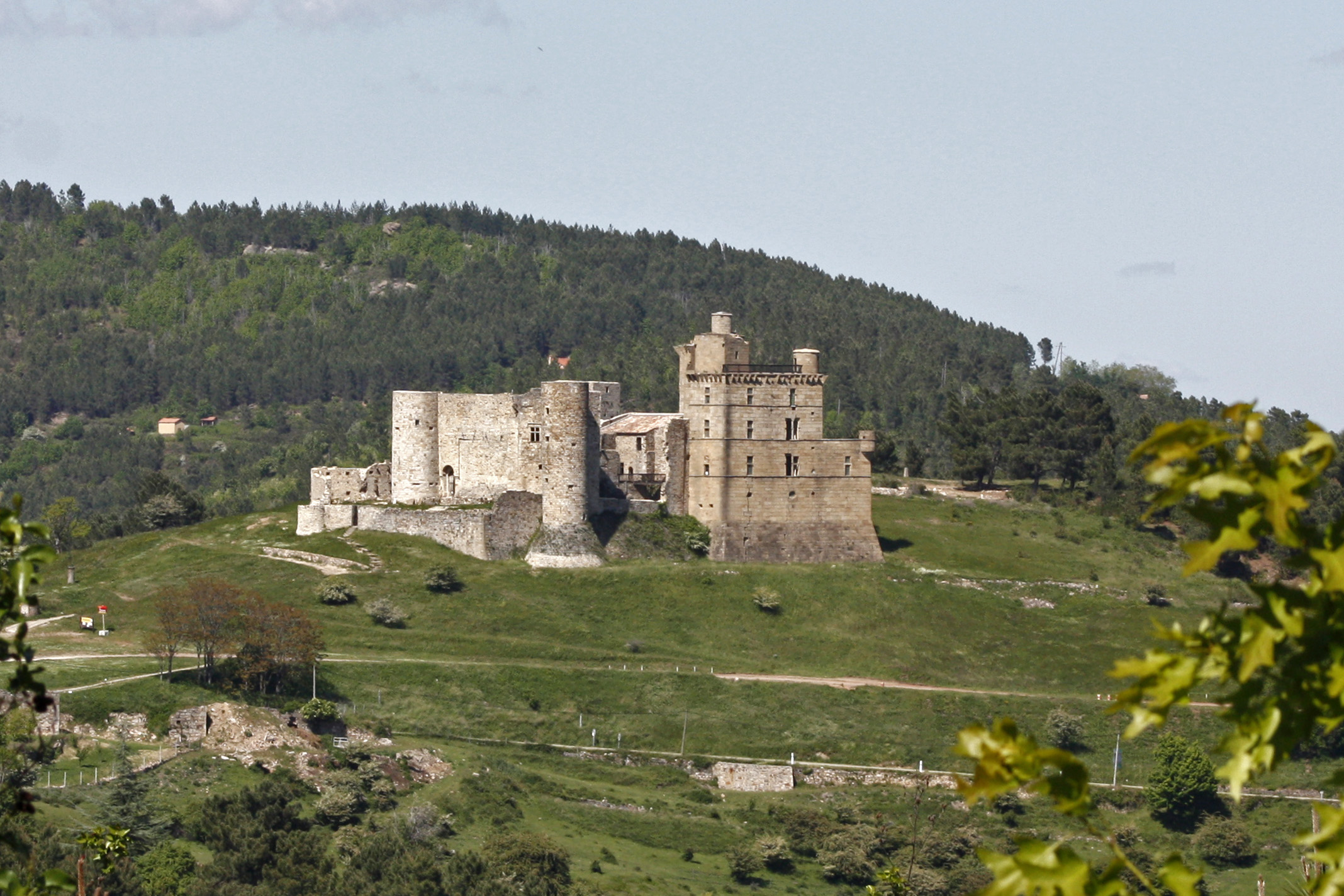 Castle of Portes, sawn from the way to the mines of Champclauson.